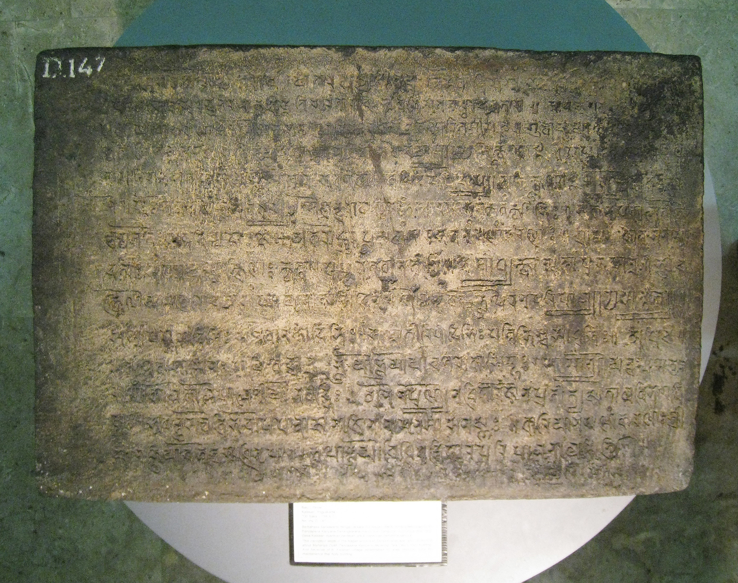 Kalasan inscription dated 700 Saka or 778 CE, written in Sanskrit using Pranagari script, mentioned about the construction of a temple by the will of Guru Sang Raja Sailendravamçatilaka (the Jewel of Sailendra family) that succeed to persuade Maharaja Tejapurnapana Panangkaran (in other part of the inscription also called as Kariyana Panangkaran) to construct a holy building for the goddess (boddhisattvadevi) Tara and also build a vihara (monastery) for buddhist monks from Sailendra family's realm. Panangkaran awarded the Kalaça village to sangha (buddhist monastic community).